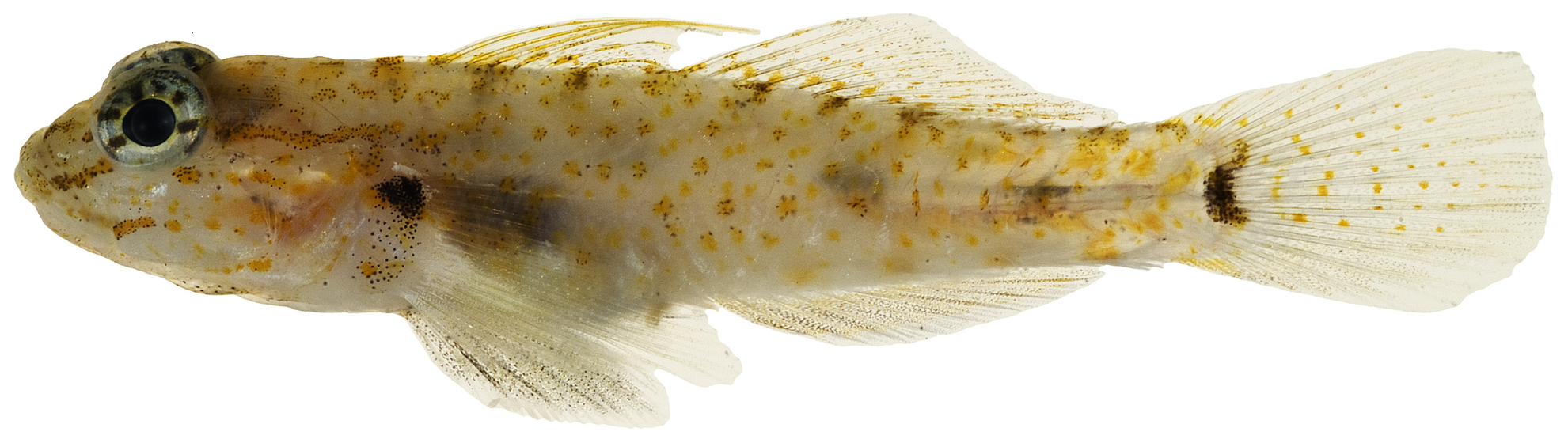 Coryphopterus thrix Böhlke & Robins, 1960—bartail goby, 26.8 mm SL. Photo by JT Williams.